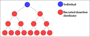 A simple binary tree diagram illustrating the hierarchical structure of a multi-level marketing compensation plan.